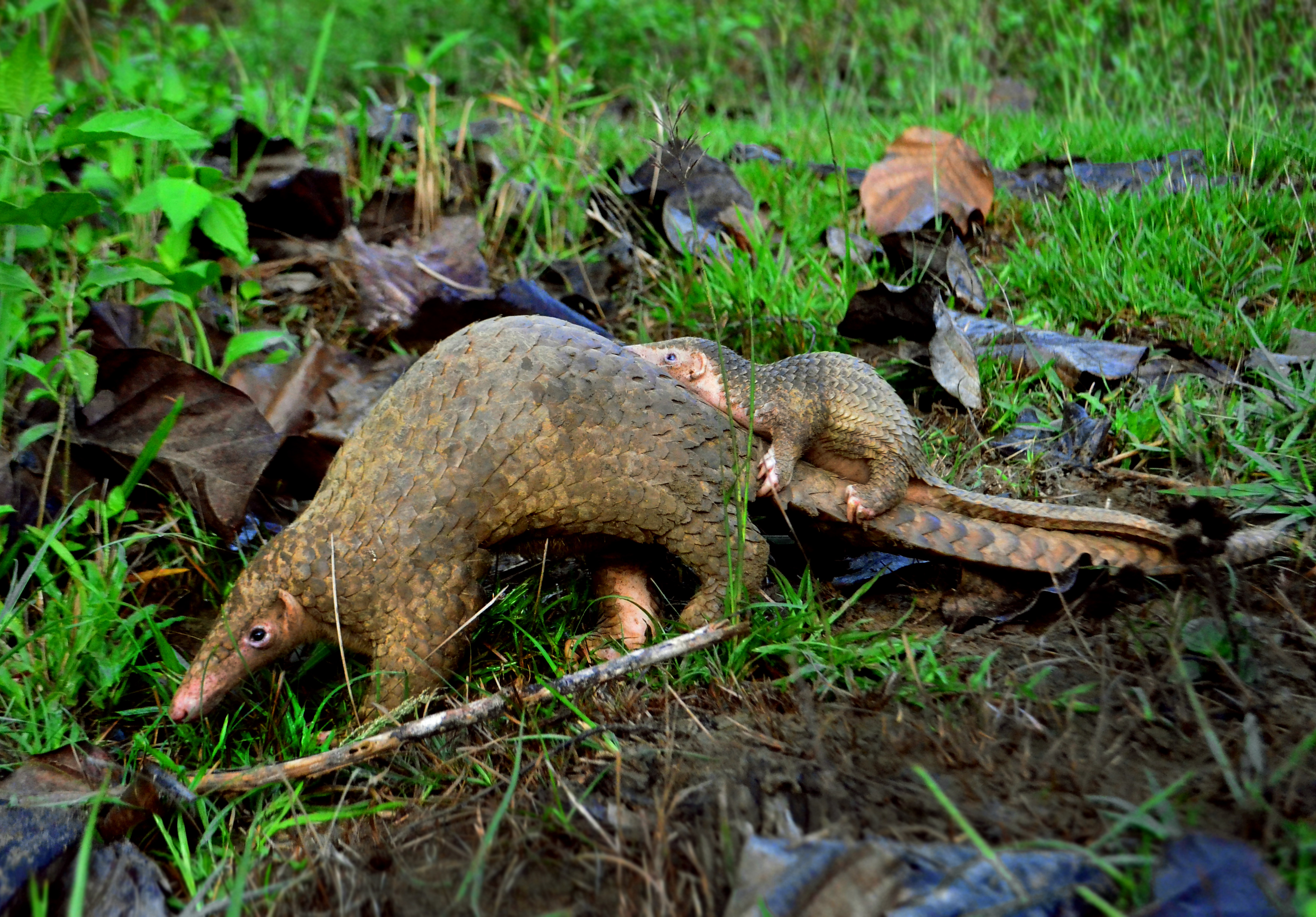 An adult Philippine Pangolin and her pup photographed in the forests of Palawan by Gregg Yan.